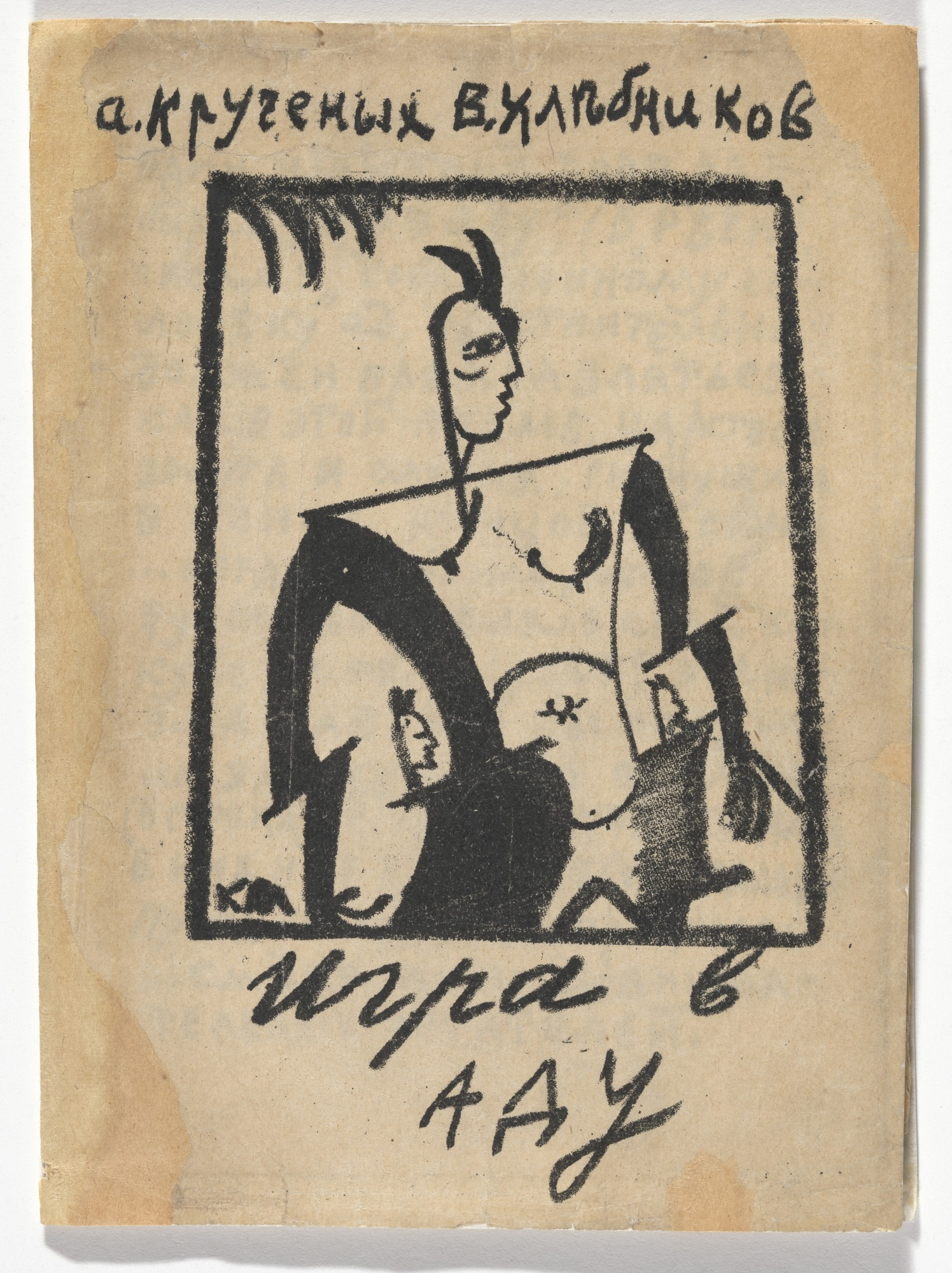 Nakov F-482-a